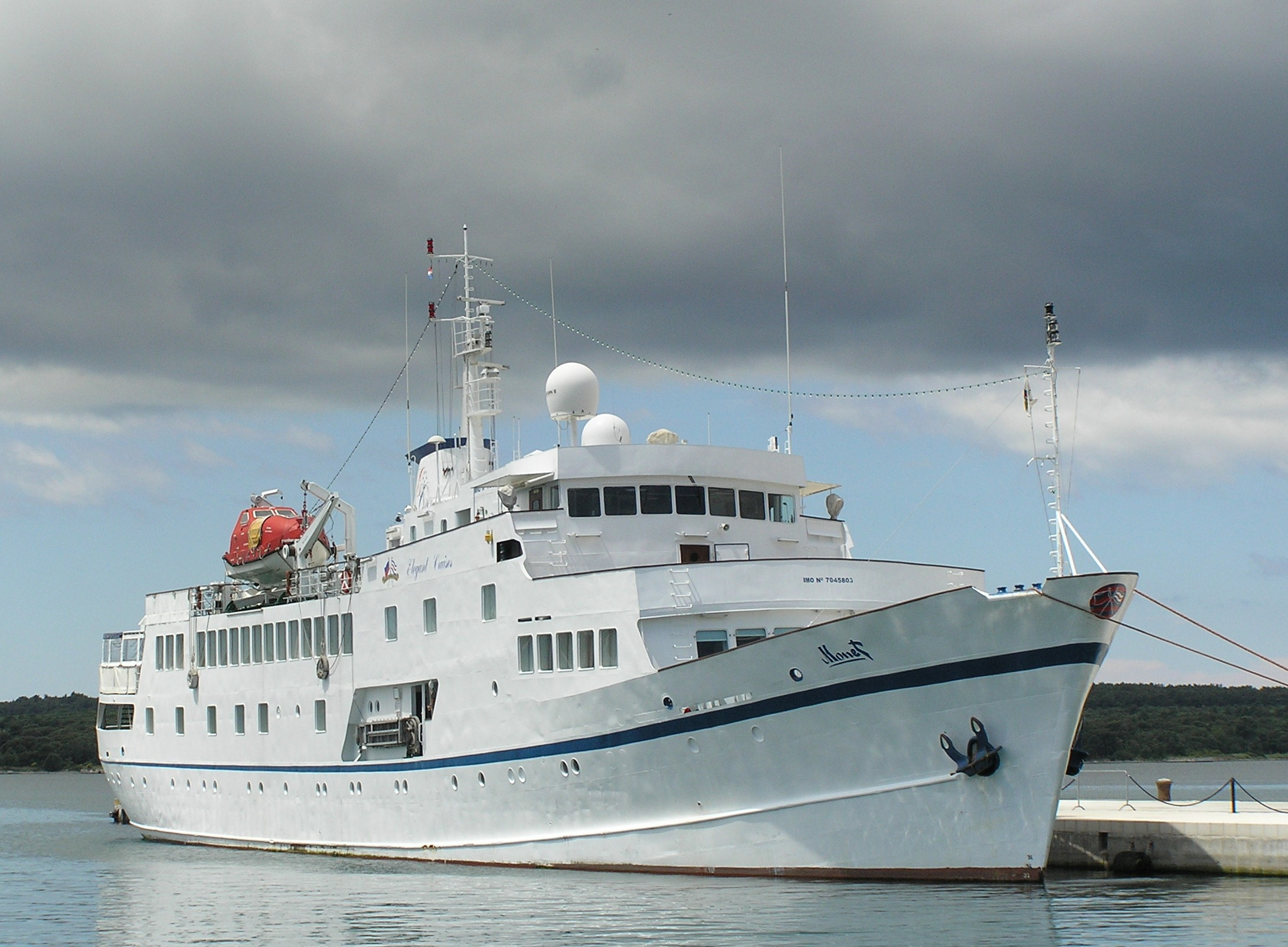 Monet cruise ship in Pula, Croatia